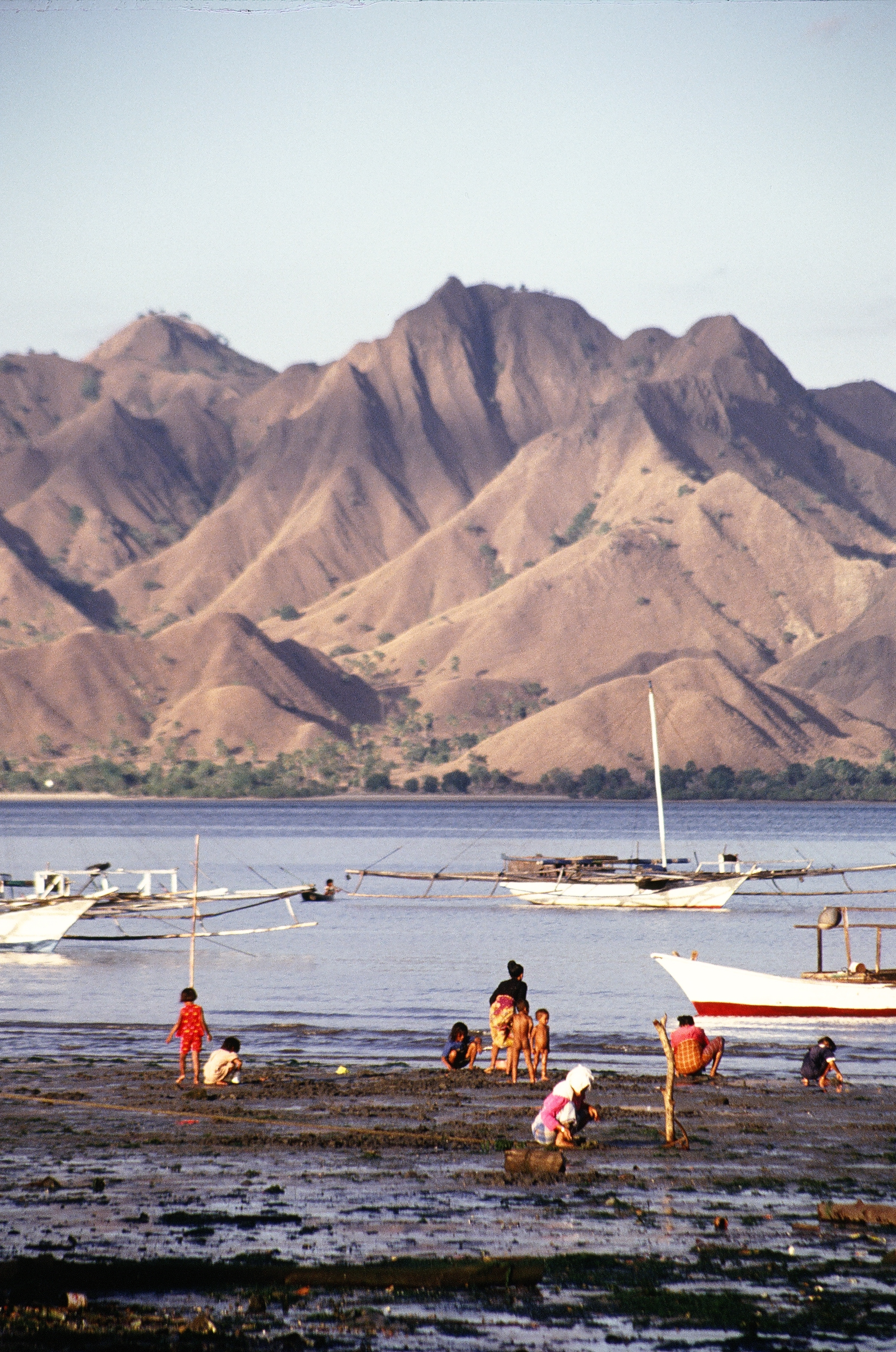 One of four villages located in Komodo National Park. Actually it's prohibited to built a residential area inside the National Park; however since these villages inhabited since early 1950, it's not easy to relocate them.